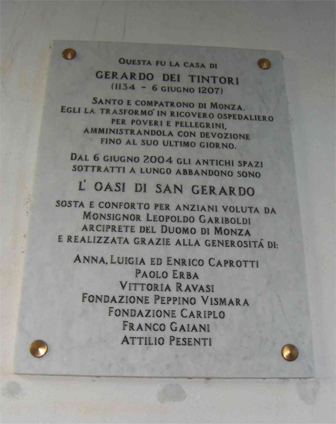 Category:Via Gerardo dei Tintori (Monza)